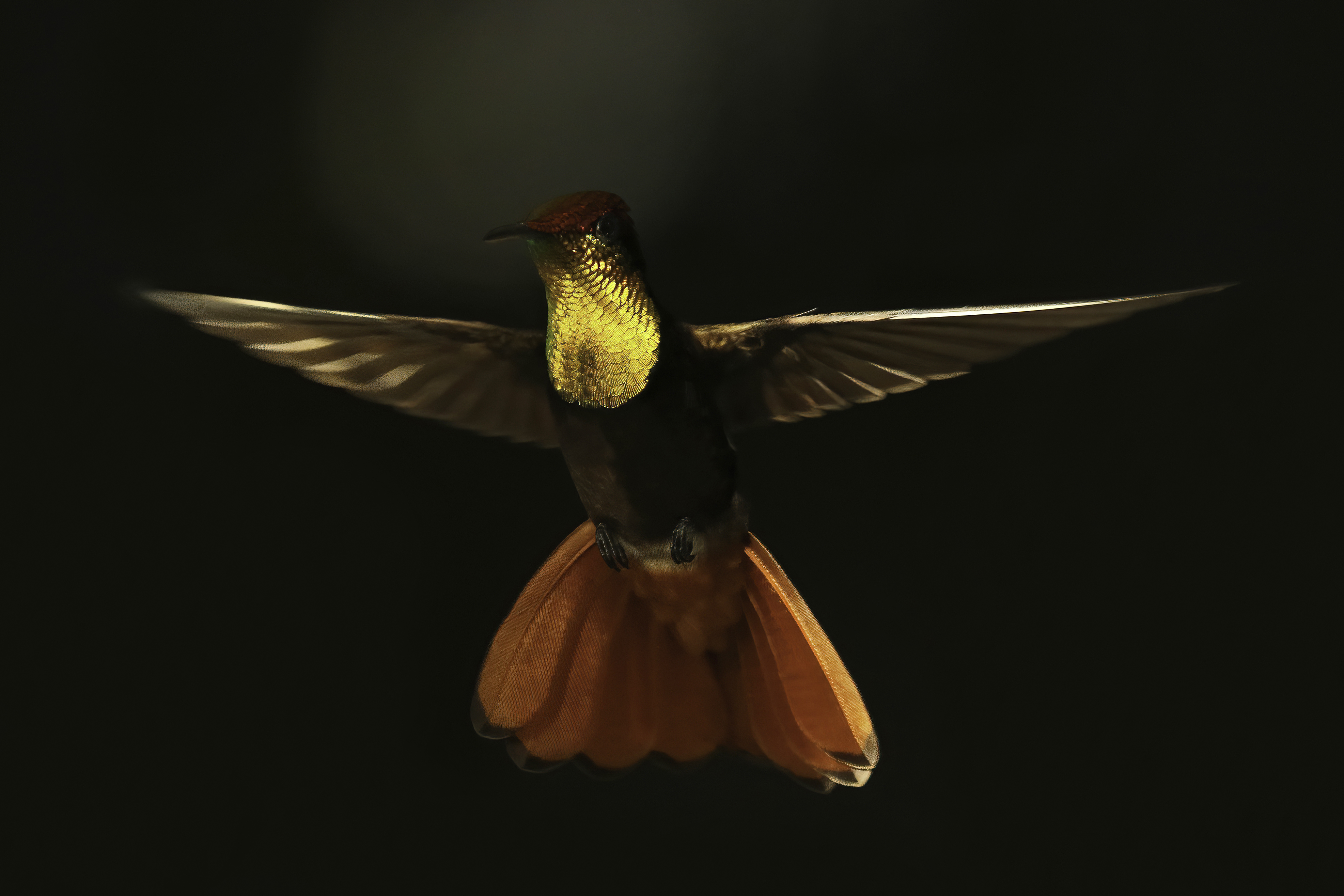 Ruby-topaz hummingbird (Chrysolampis mosquitus) male in flight, Tobago